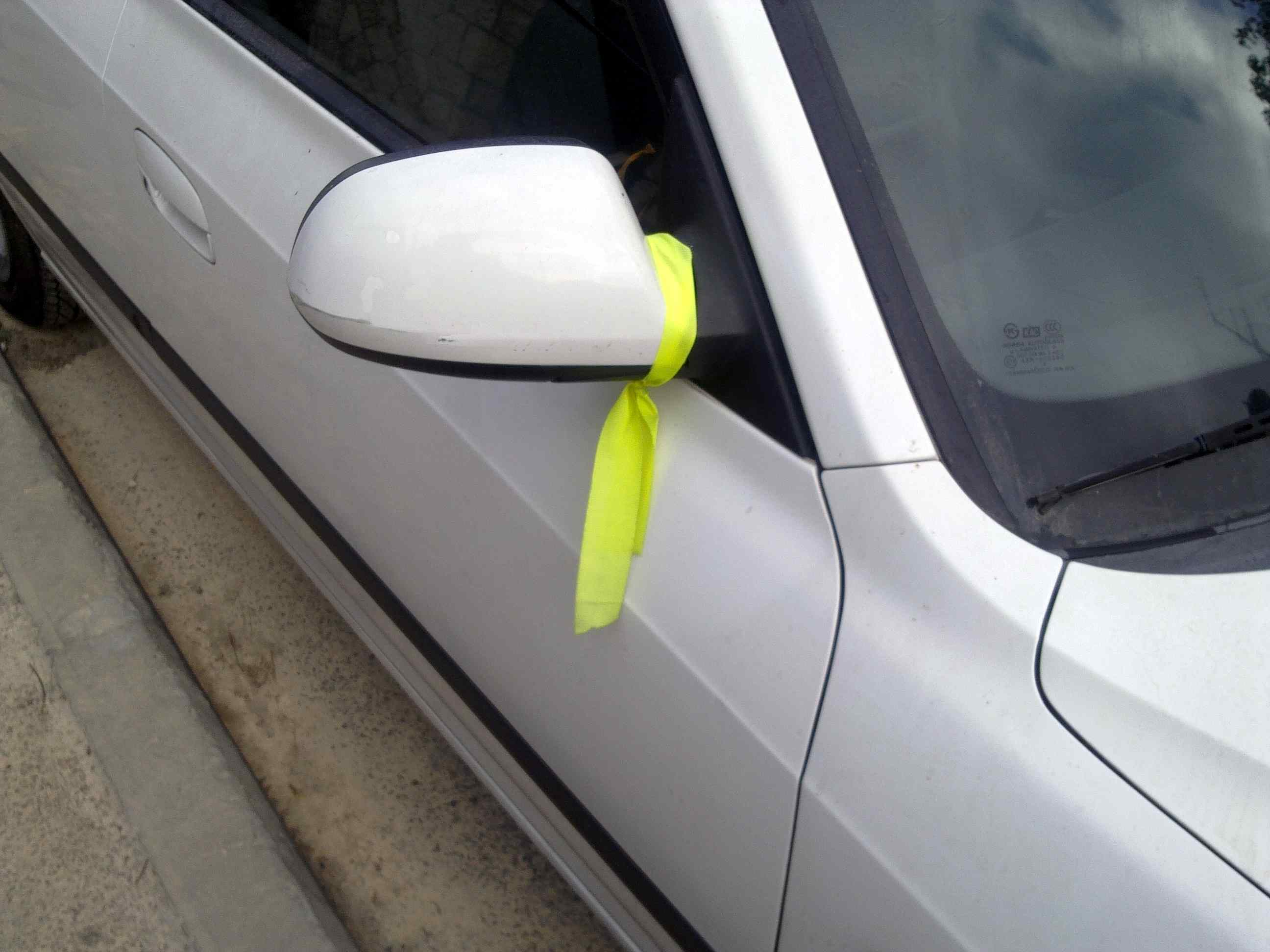 Car with yellow Ribbon in Israel